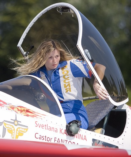 Svetlana Kapanina in a Sukhoi Su-26M (LY-AKG, cn 06-03) owned by Jurgis Kayris during the Otopeni Airshow 2011.